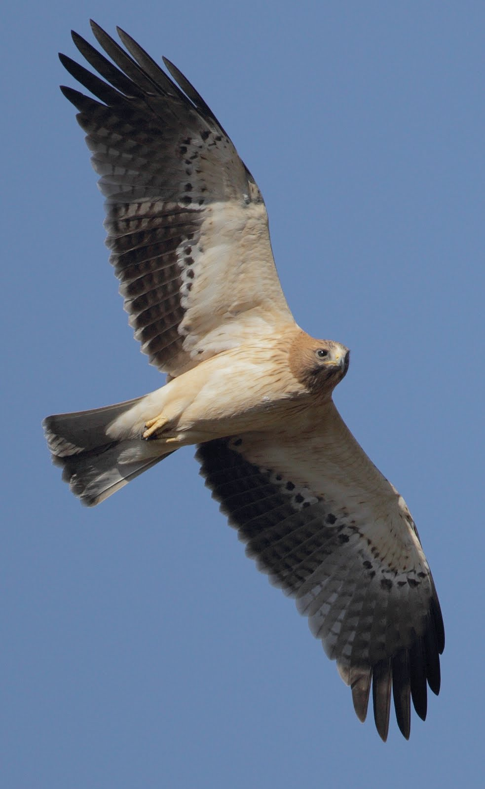 Flying booted eagle (Aquila pennata), pale morph